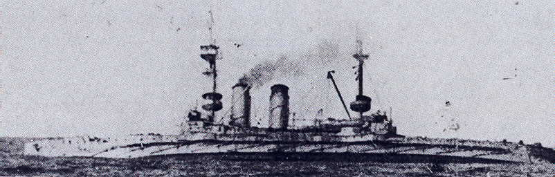 HMS Cornwallis (1901) sinking in the Mediterranean Sea on 9 January 1917 after being torpedoed by German submarine U-32